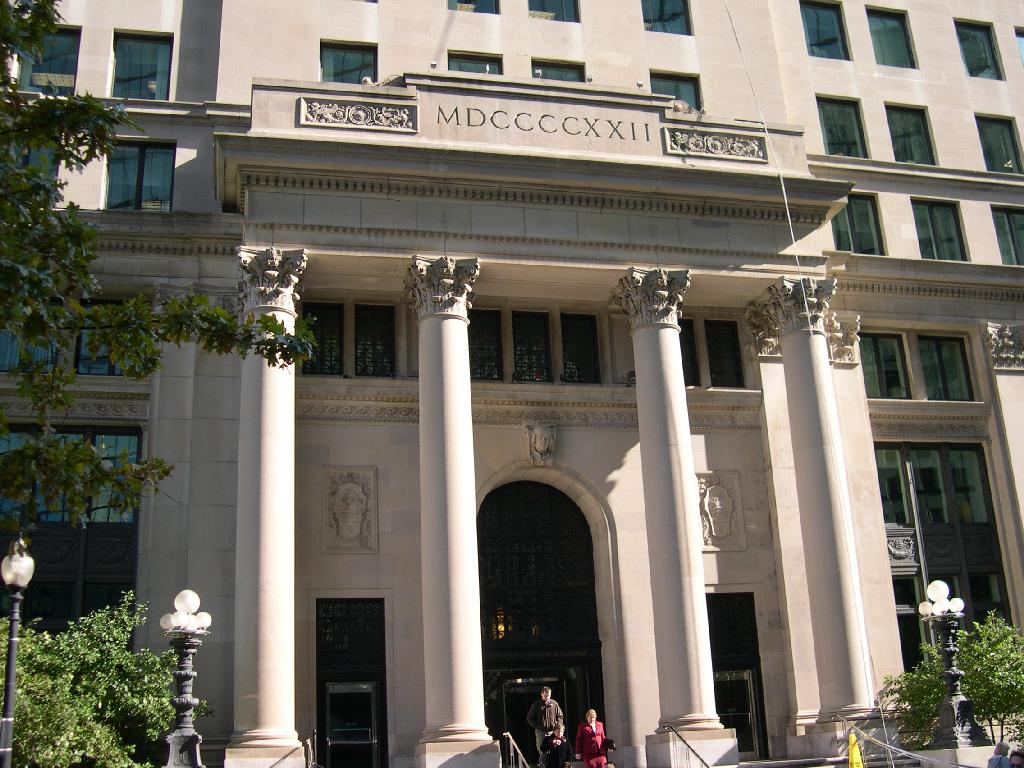 The entrance to the John Hancock Building, 197 Clarendon, Boston.